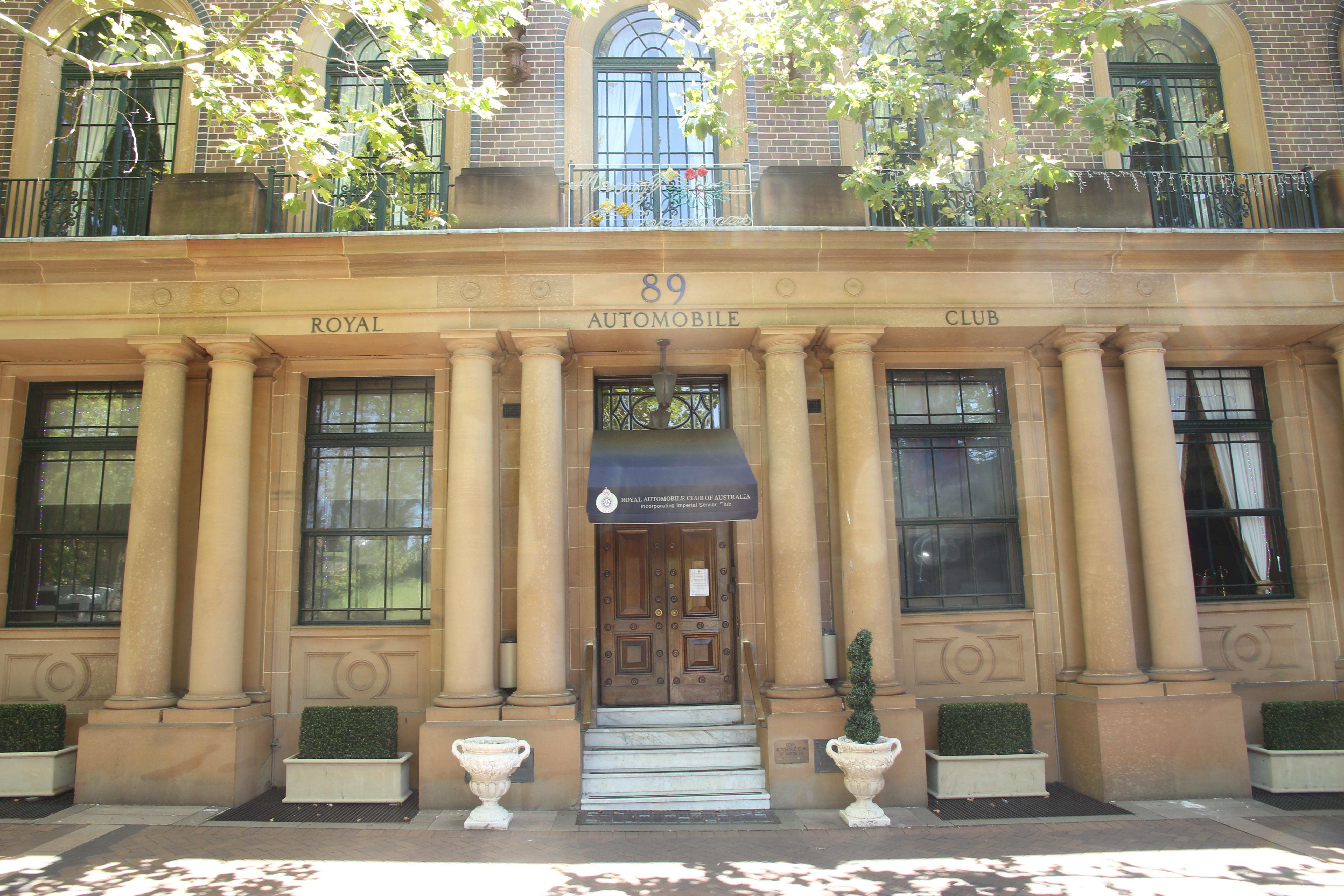 Macquarie Street portico of the Royal Automobile Club of Australia building, located in Macquarie Street in the Sydney central business district in the City of Sydney, New South Wales, Australia